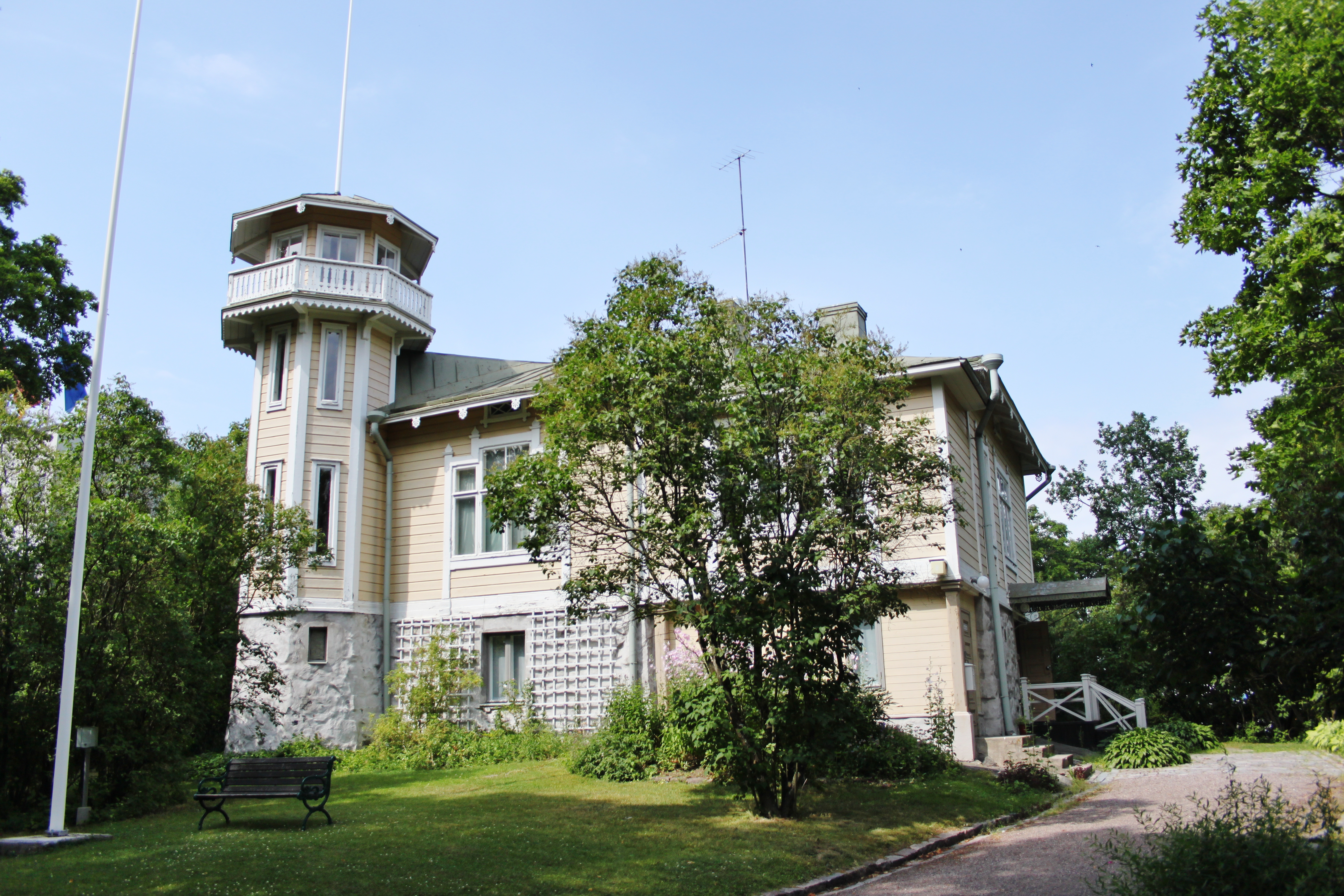 Cygnauksen galleria, Kalliolinnantie, Helsinki. Architecht: Johan Wilhelm Friedrich Mieritz. Built 1882